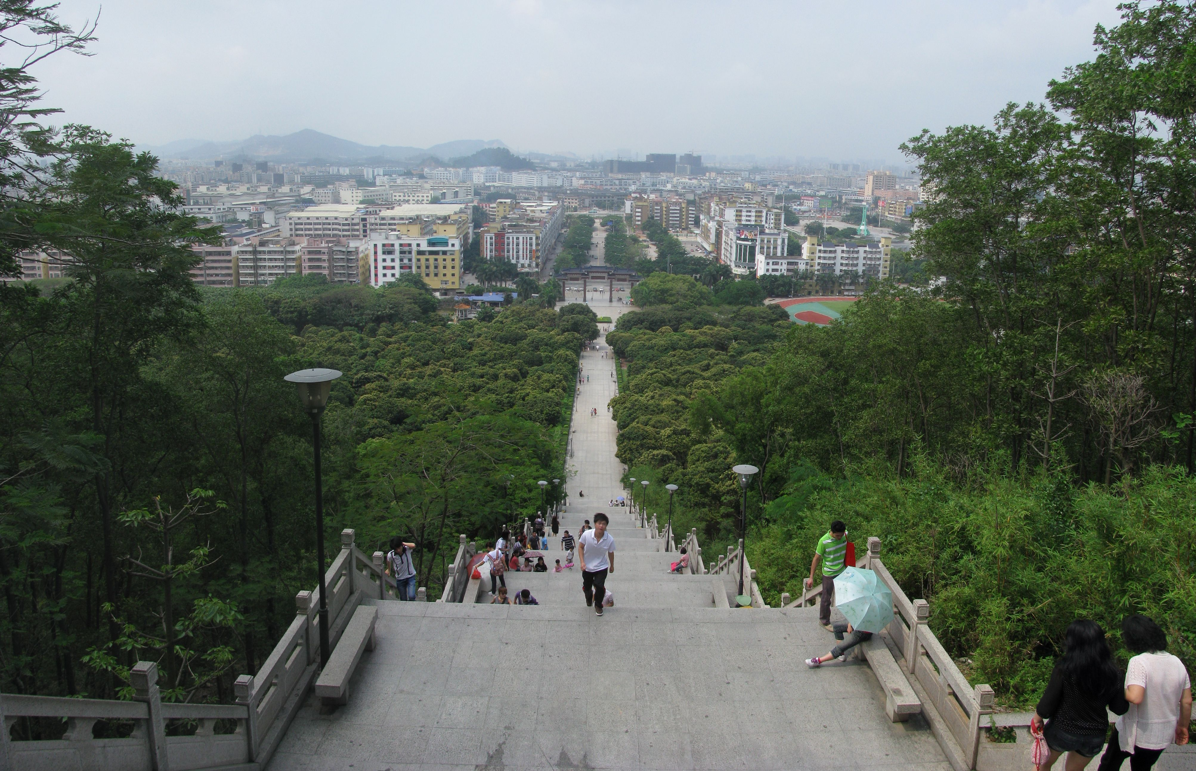 Baoan in Shenzhen. View from the Honghuashan Park.